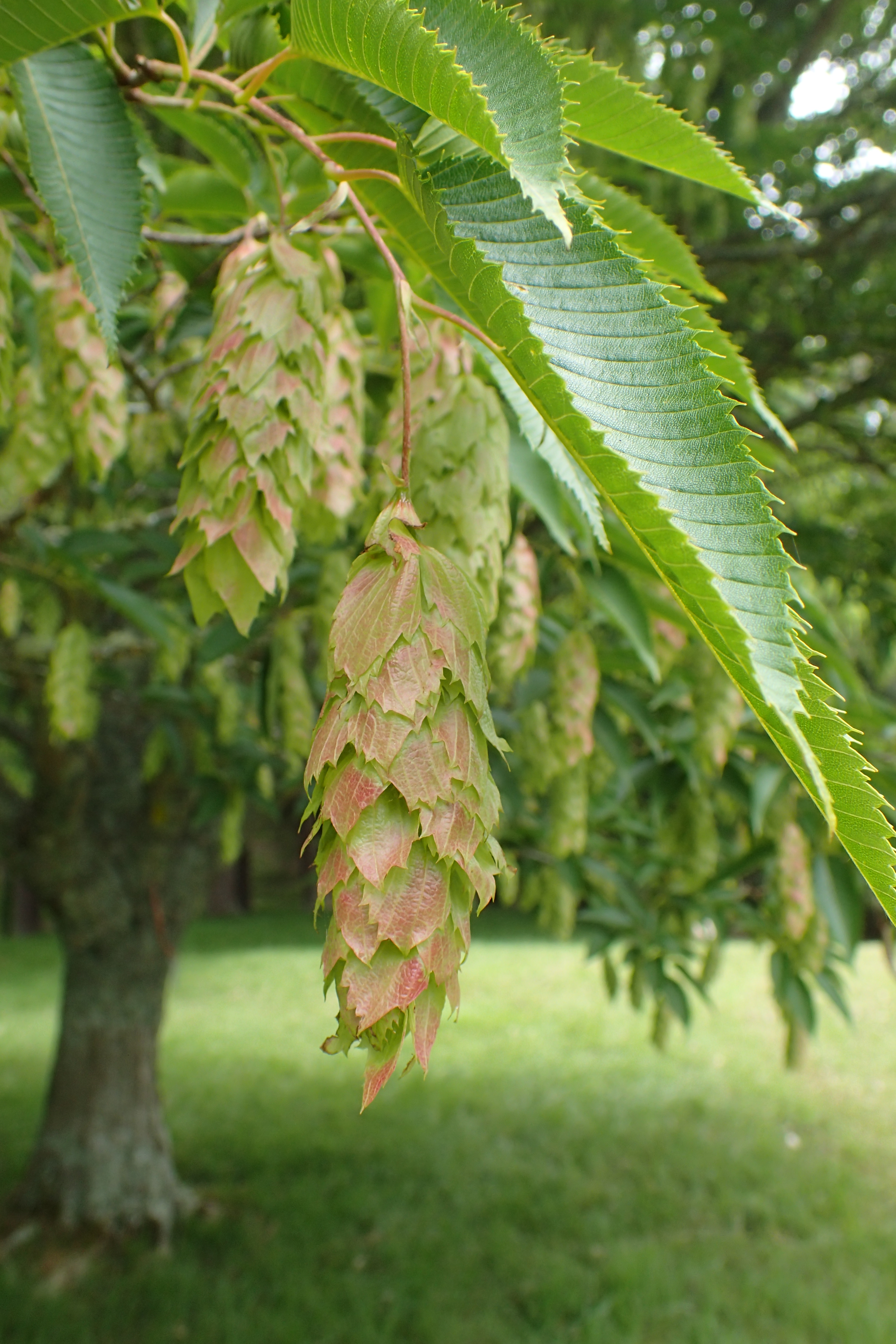 Carpinus japonica in Hackfalls Arboretum, Hawkes's Bay, NZ